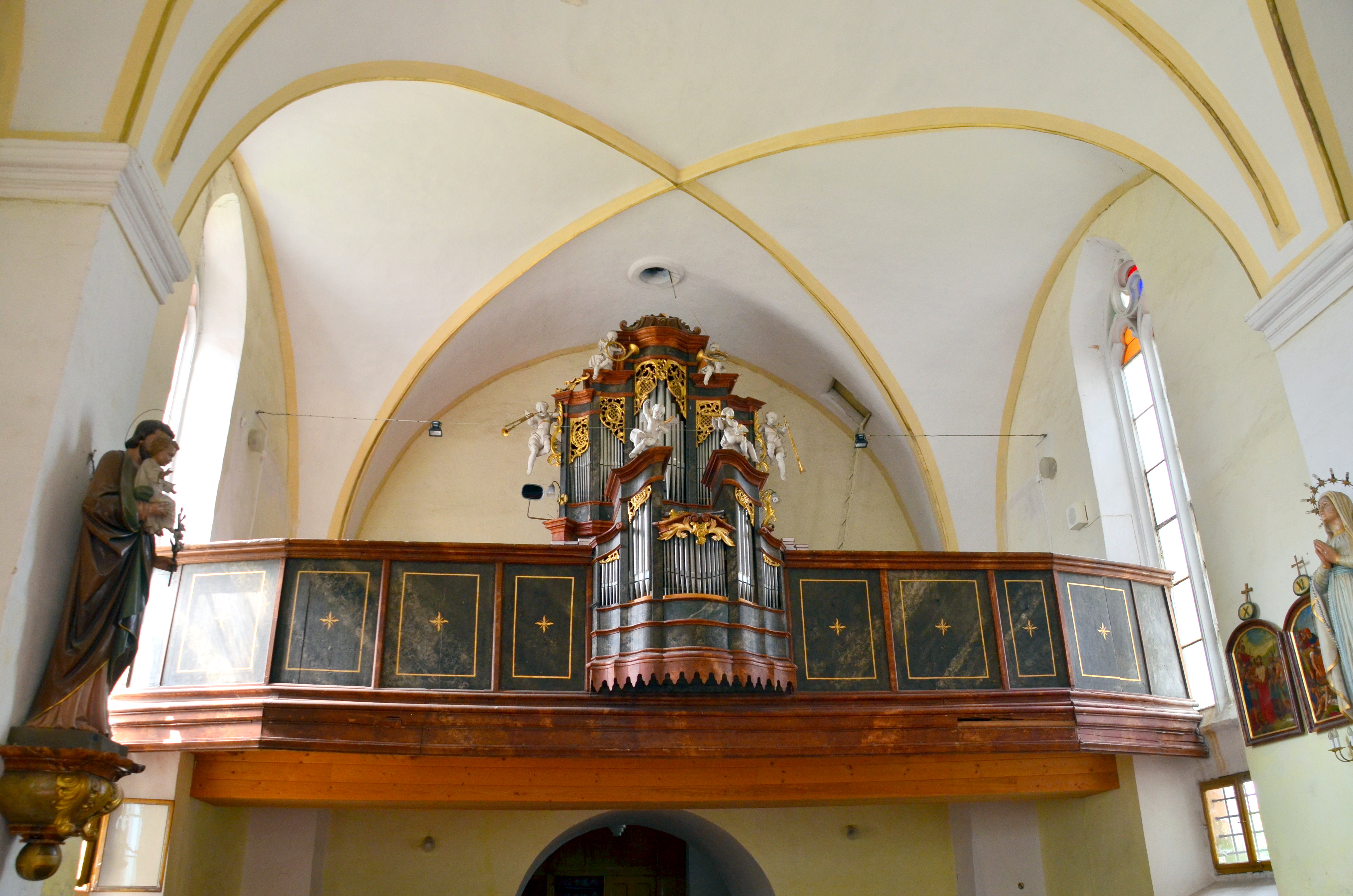 Choir with organ